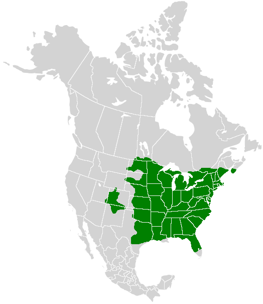 A range map showing the distribution of the Banded Hairstreak (Satyrium calanus)